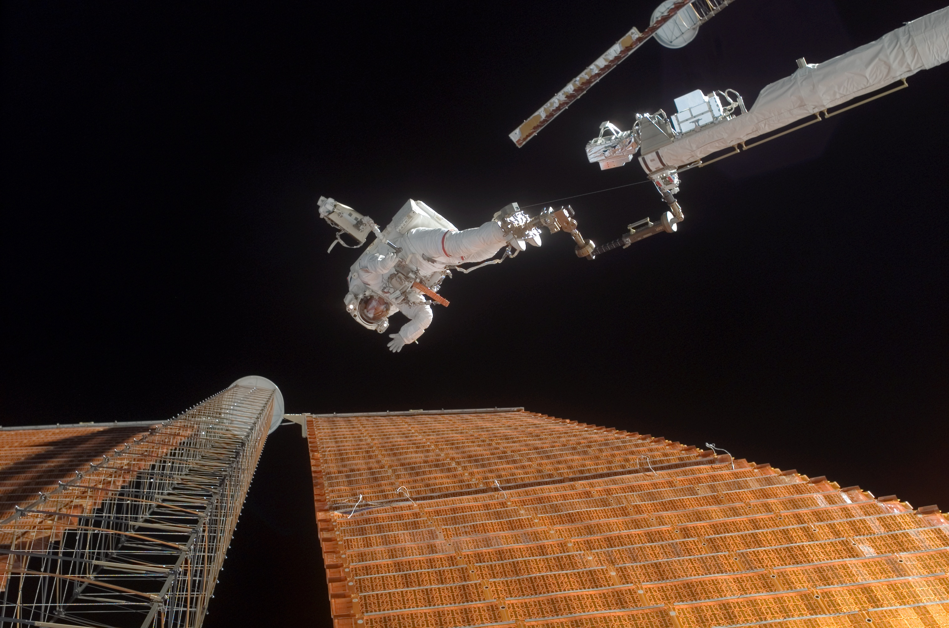 Astronauts Scott Parazynski and Douglas Wheelock (not pictured) of STS-120 conducted a 7 hour, 19-minutes spacewalk to repair (esentially sew) a damaged solar panel which helps supply power to the International Space Station. NASA expressed that the spacewalk was very dangerous with potential risk of electrical shocks. Photo taken by Astronaut Doug Wheelock